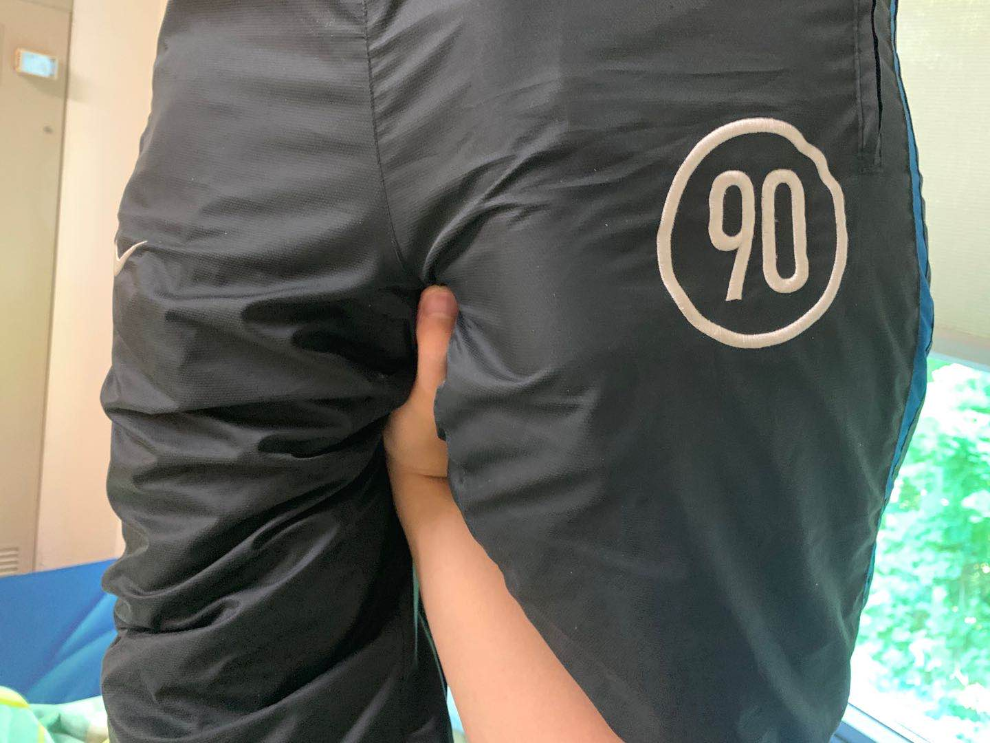 nylon pant doll